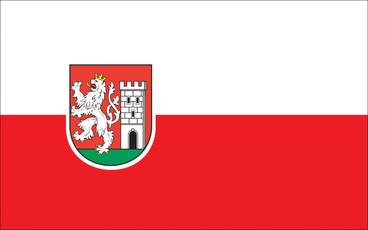 Municipal flag of Nymburk town, Czech Republic